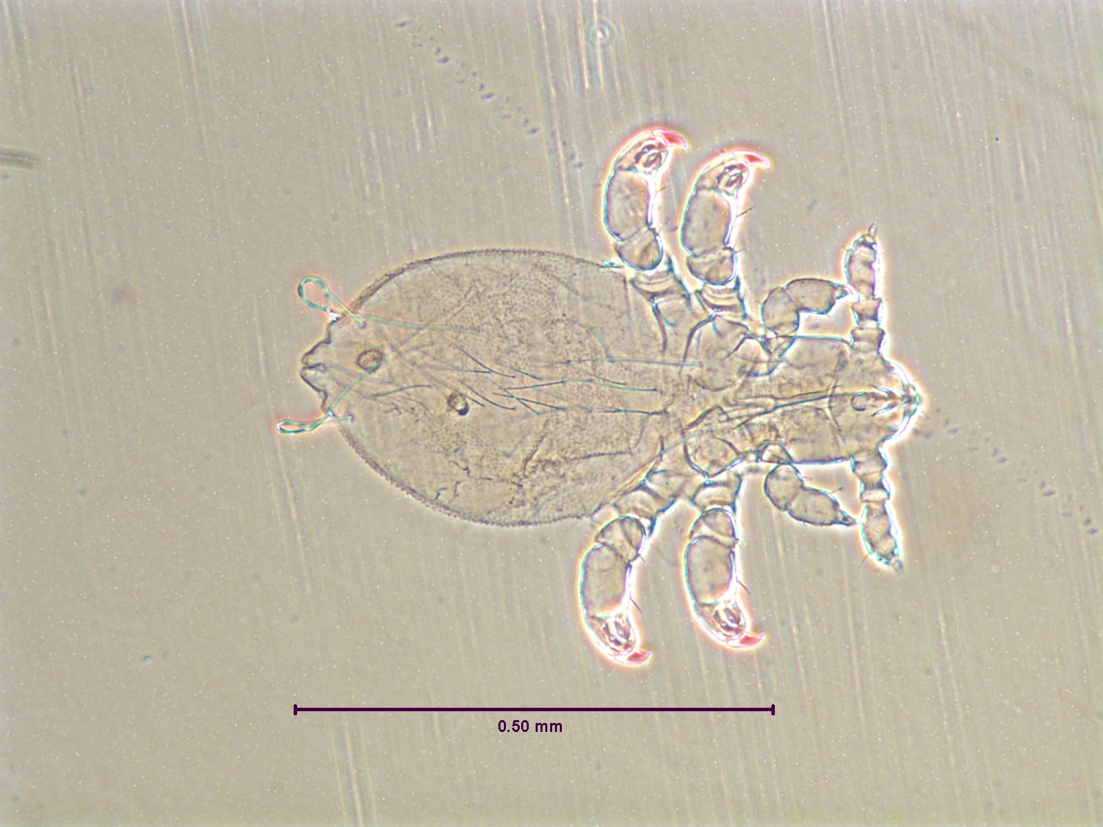 Neohaematopinus callosciuri, first stage nymph, dorsal, scale 0.50 mm